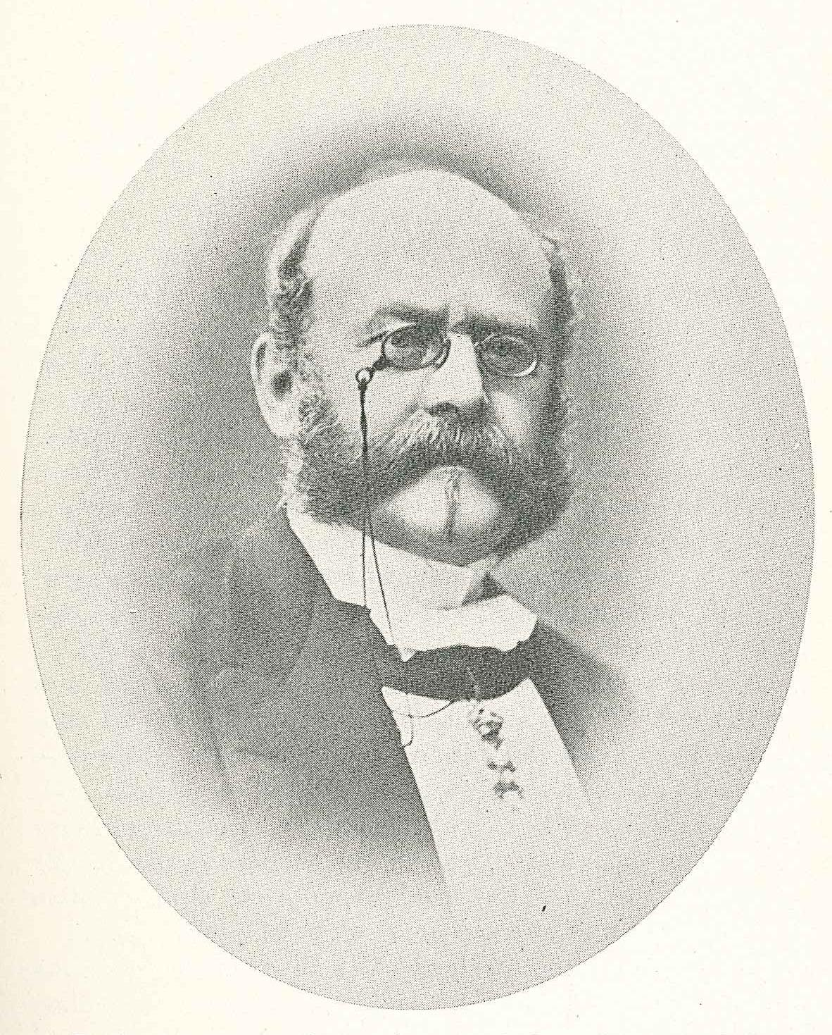 Erik af Edholm (1817-1897), Swedish officer, courtier (hovmarskalk) and head of the Royal Swedish Opera and Royal Dramatic Theatre in Stockholm.